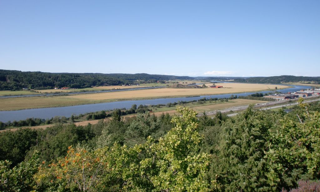 View over the island Tjurholmen in Göta älv river from the stronghold Ranneberget south of the village Älvängen.